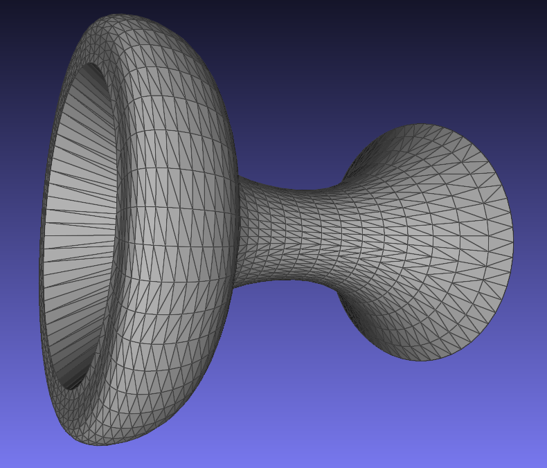 STL sample